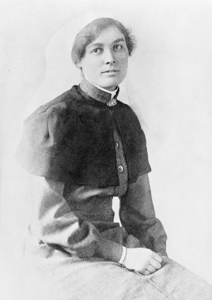 Portrait of Staff Sister Pearl E. Corkhill MM, Australian Army Nursing Service (AANS), of Tilba Tilba, NSW. Awarded the Military Medal, 28 August 1918, aged 31.